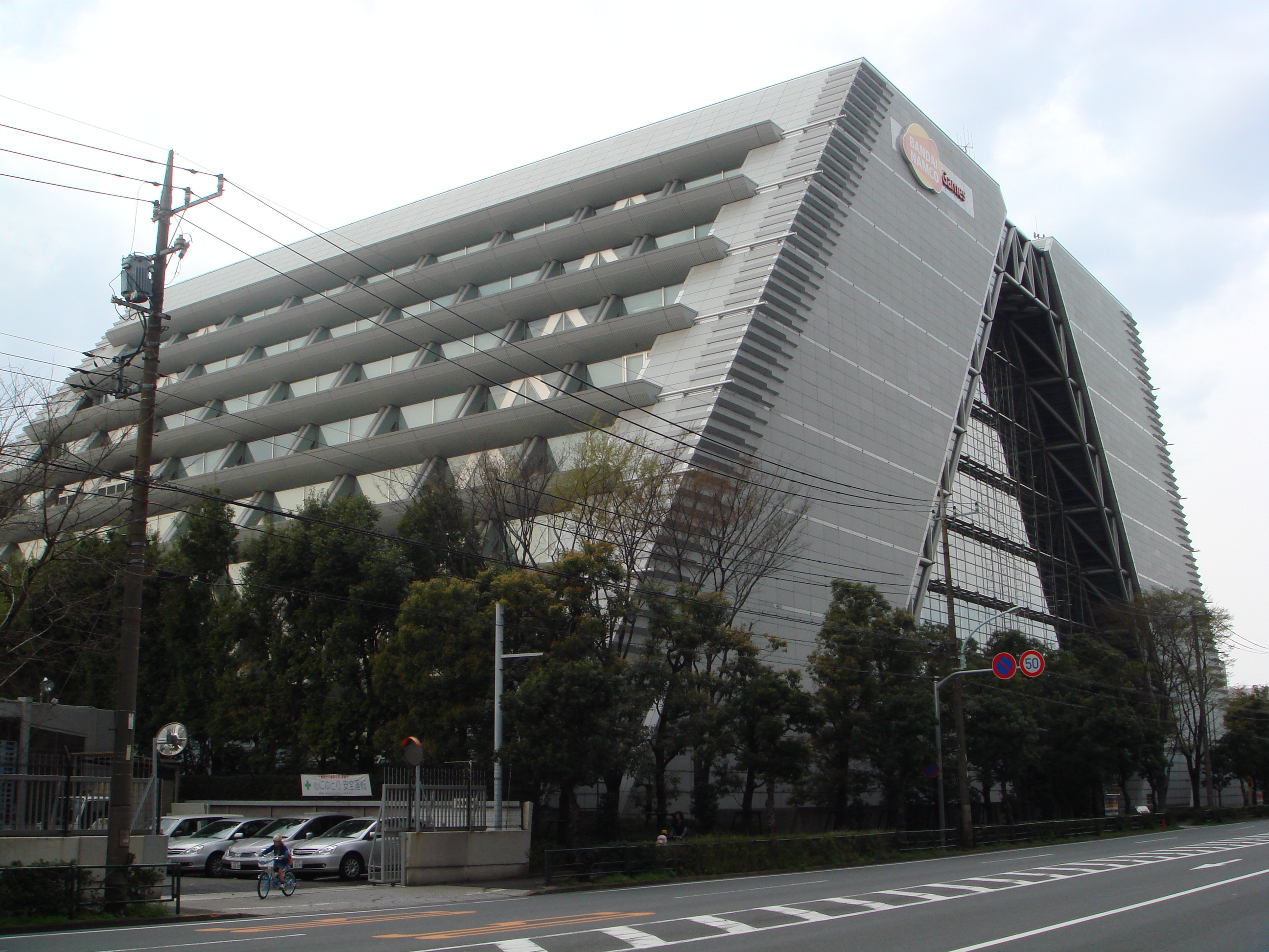 NAMCO BANDAI Games Inc. headquarters overview.